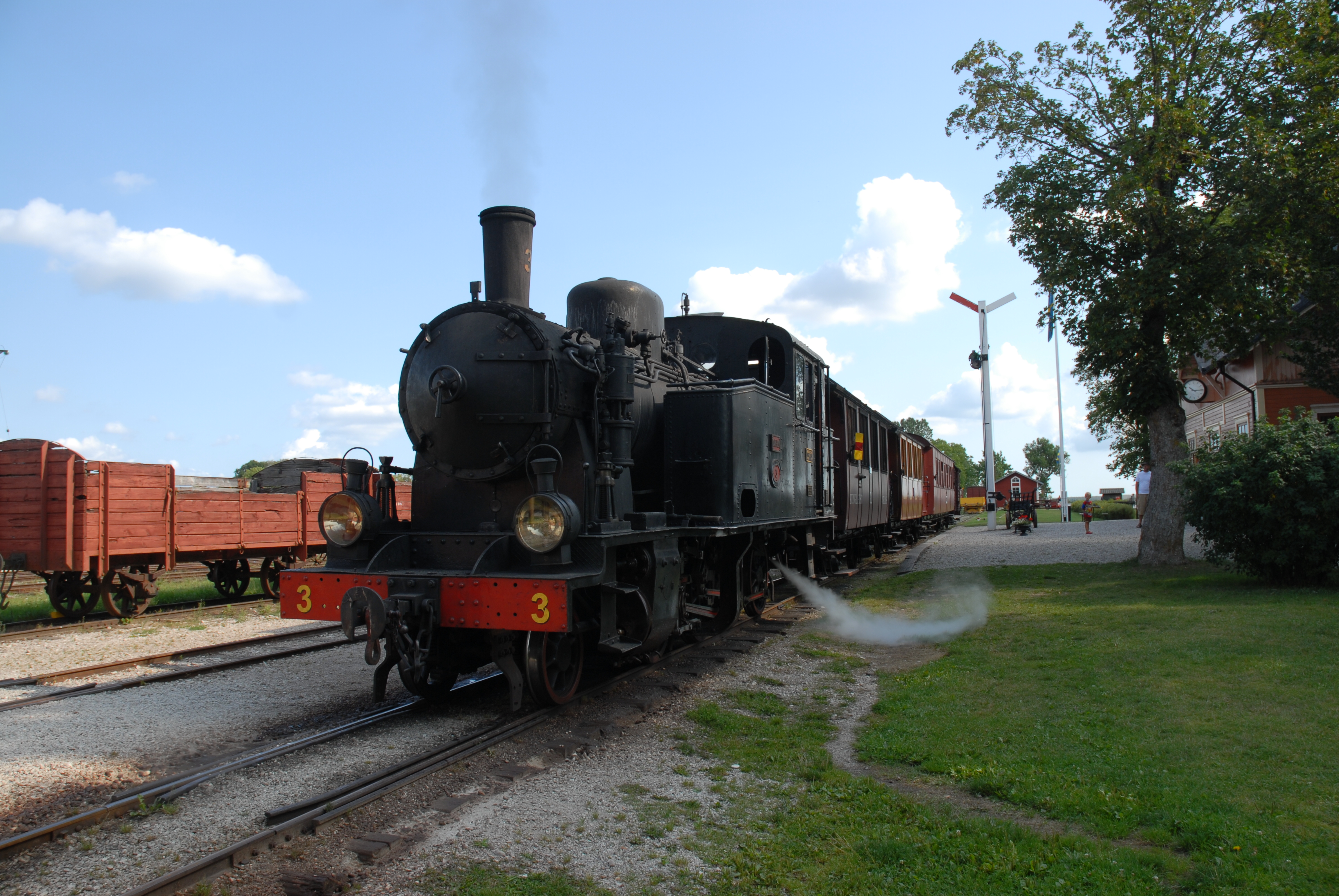 A Gotlands Hesselby Järnväg museum train in station Hesselby is ready for departure